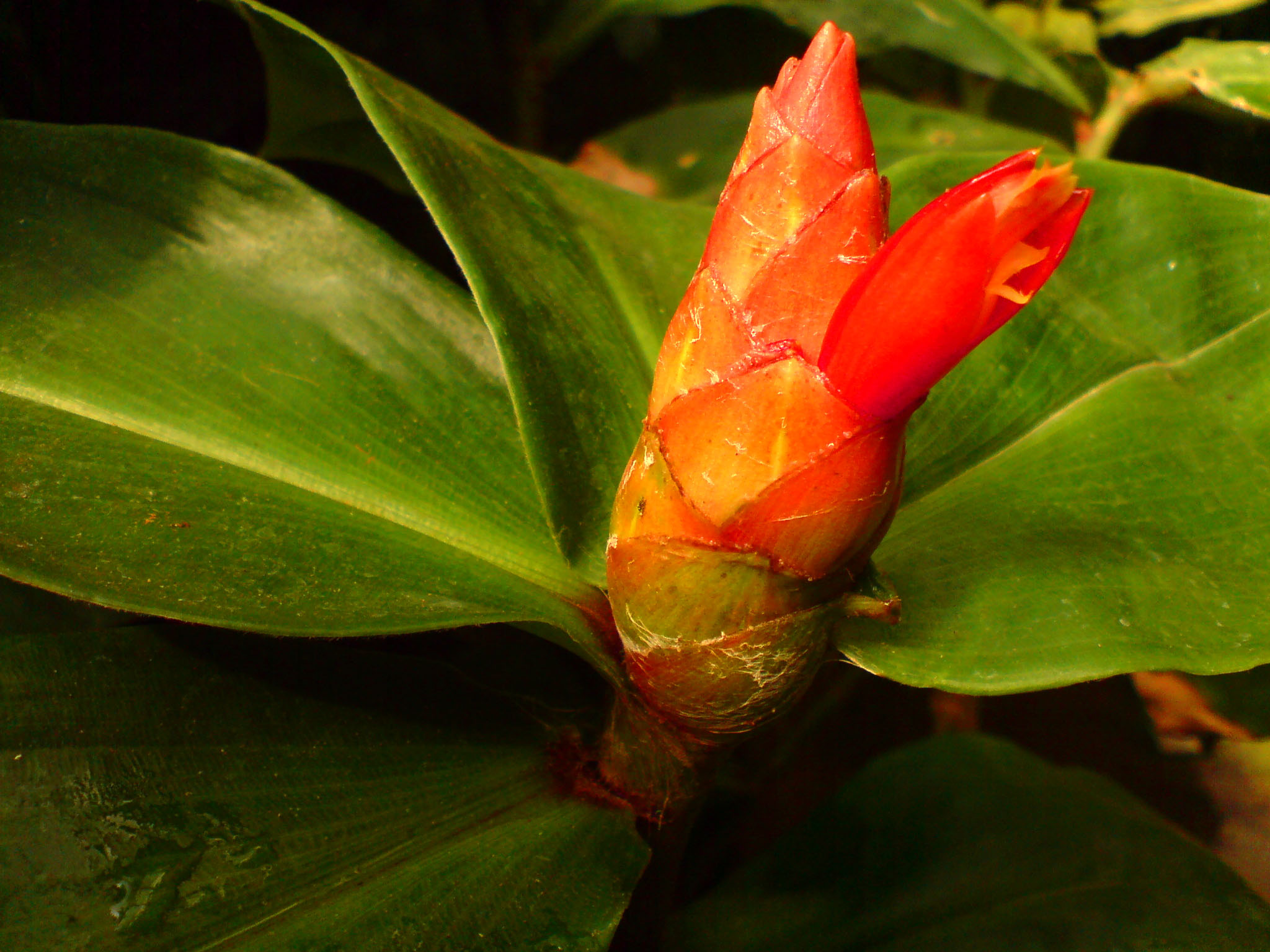 Costus scaber - Botanical Garden Göttingen